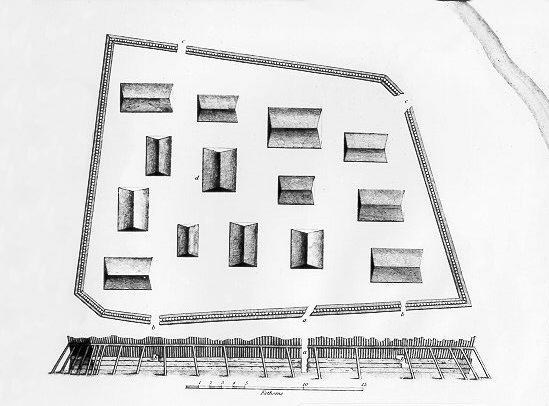 A sketch of the Tlingit "Sapling Fort" on Baranof Island, Alaska (1804). Source: U.S. National Park Service.